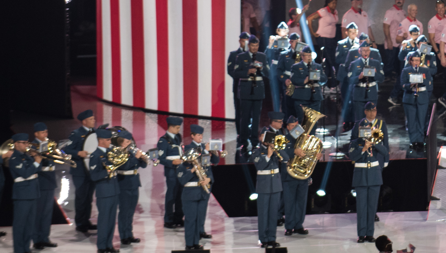 Team U.S. enters the Air Canada Center during the Opening Ceremony of the 2017 Invictus Games in Toronto, Canada., Sept. 23, 2017. The Invictus Games, founded in 2014 by the United Kingdom’s Prince Harry, is designed to use the power of sport to inspire recovery, support rehabilitation and generate a wider understanding of and respect for those who serve their country and their loved ones.(DoD Photo by U.S. Army Sgt. James K. McCann)